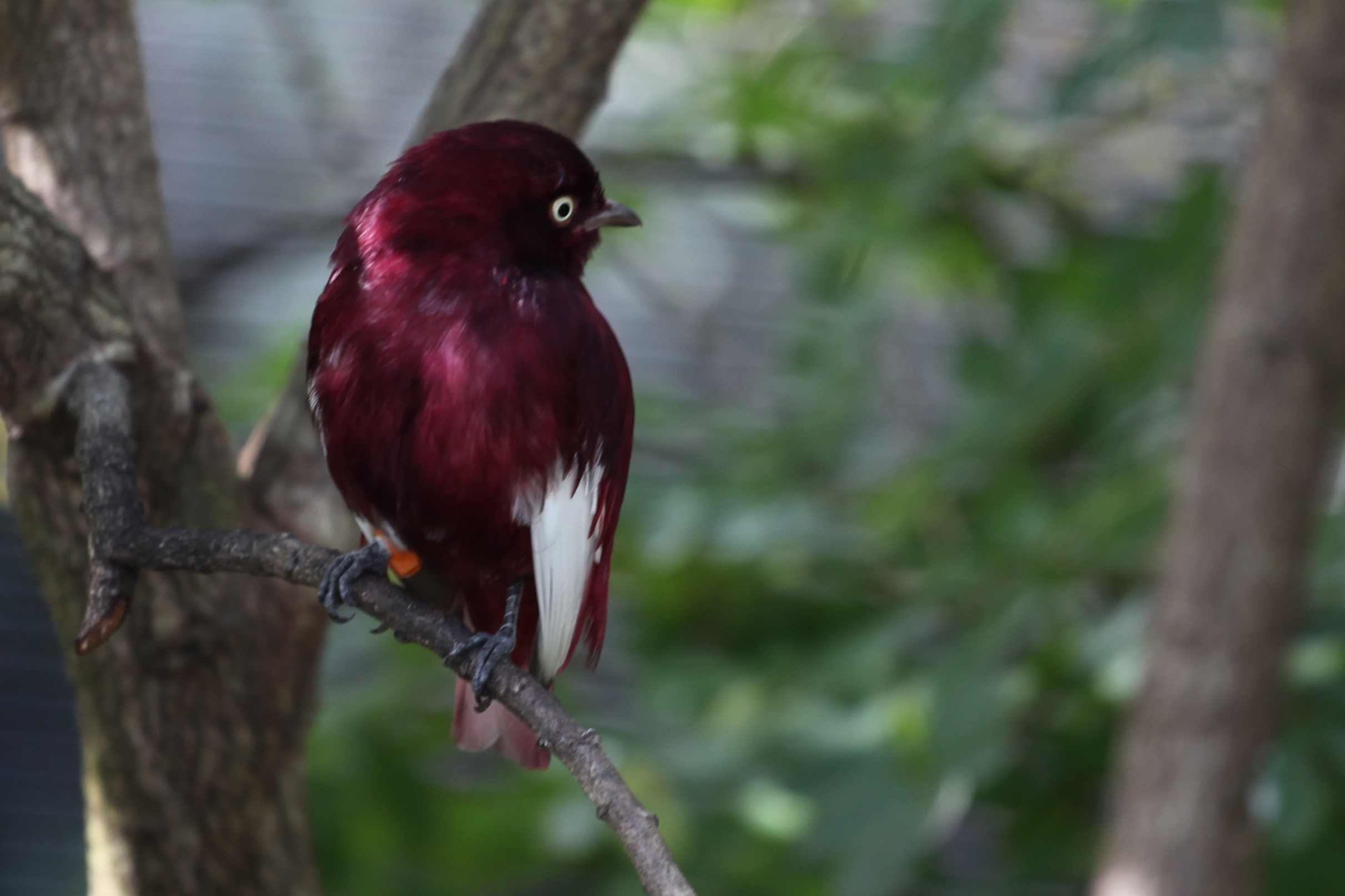 A male Pompadour Cotinga at Miami Metrozoo, Florida, USA.